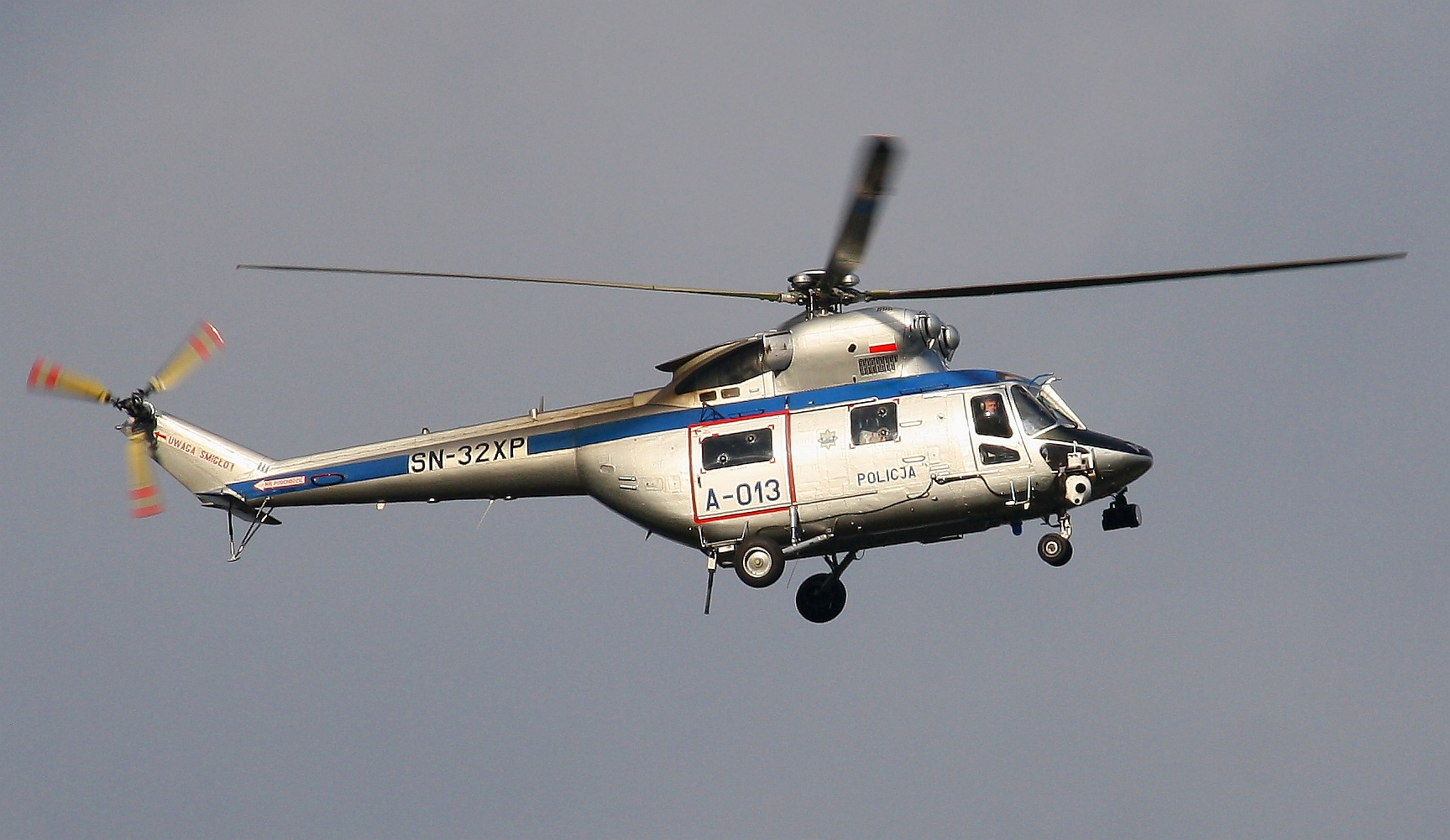 Helicopter PZL W-3 Sokol (SN-32XP) in the colors of the Polish police, during the final match of the Polish Cup.